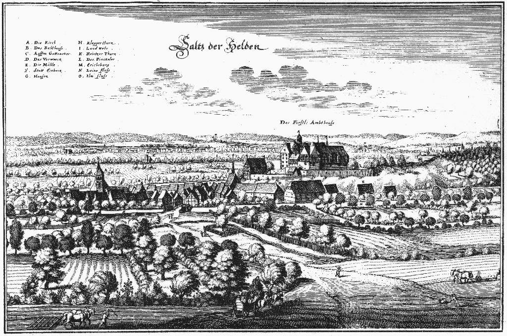 Der Stich vom Matthias Merian aus dem Jahr 1654 zeigt eine repräsentative Schloßanlage mit Bergfried, hohem Treppenturm, Renaissance-Giebeln und einem imposanten mehrstöckigen Fachwerkaufbau auf den starken steinernen Grundmauern. Zu Füßen der Burg erstreckt sich der Ort mit der Kapelle St. Johannes, gestiftet im 15. Jh. von Margaretha, der Frau des Herzogs Heinrich III. und der ehemaligen Pfarrkirche St. Marien (seit der Mitte des 18. Jh. ersetzt durch den Neubau der St. -Jacobi-Kirche) After Conrad Buno